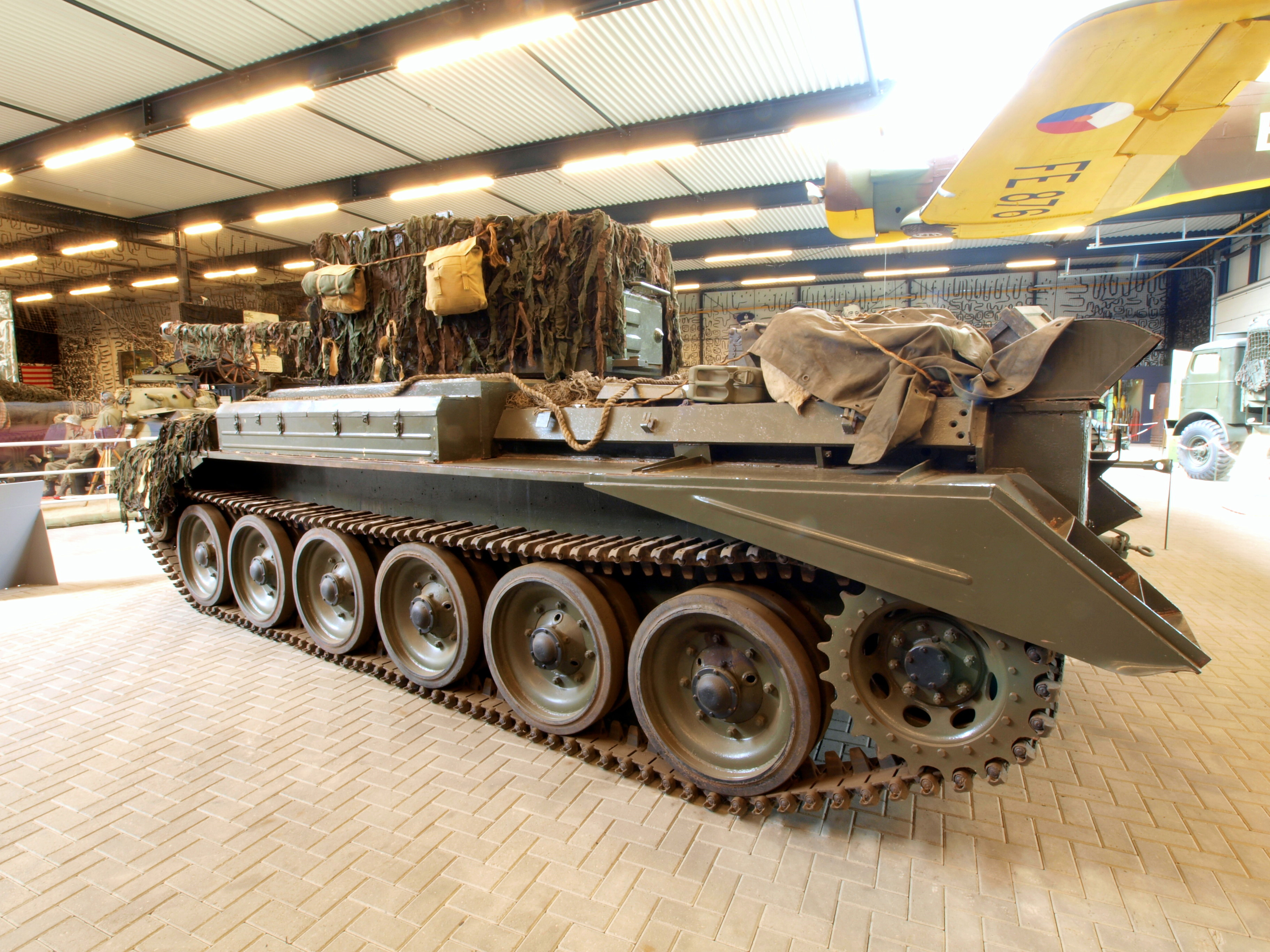 Photographed at the Marshallmuseum - Liberty Park - Oorlogsmuseum Overloon, The Netherlands.